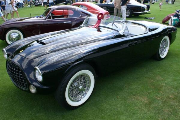 1952 Ferrari 212/225 photographed by DougW of at the 2005 Meadow Brook Concours d'Elegance. This beautiful Ferrari is owned by the Petersen Museum in Los Angeles.